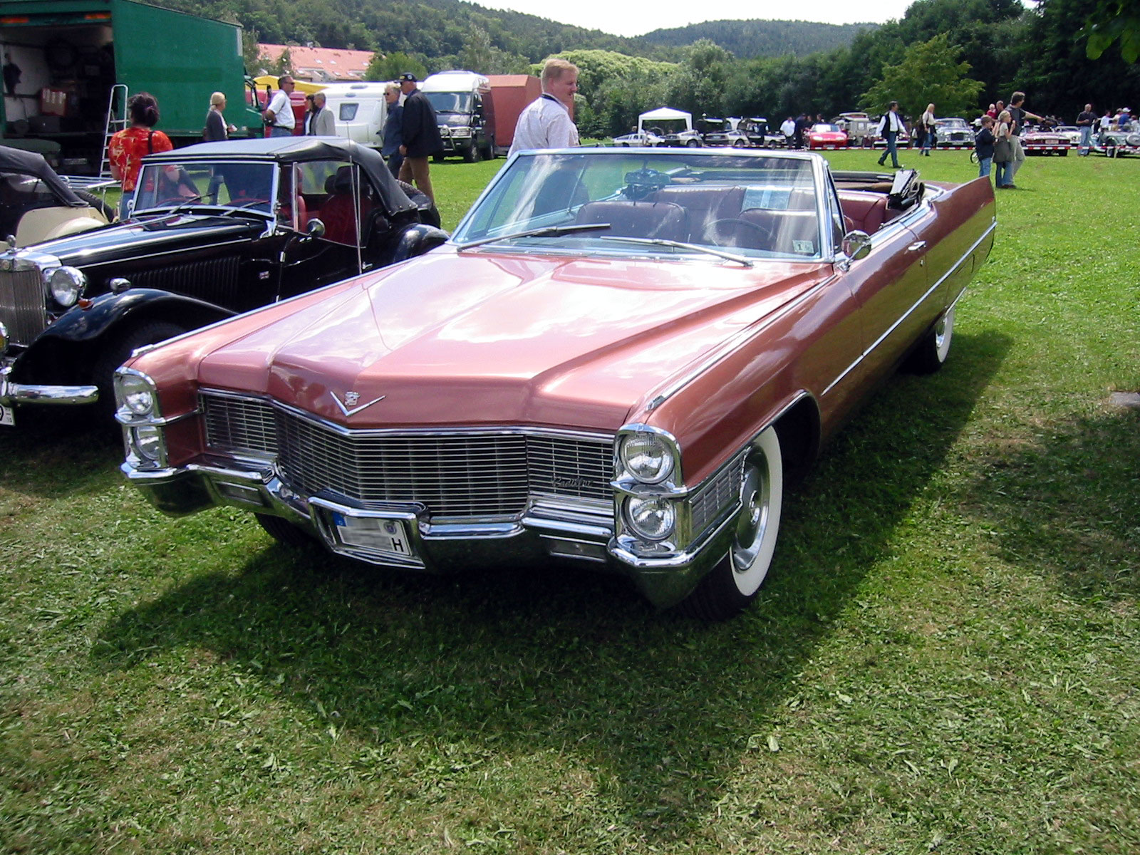 Cadillac DeVille Convertible 1965